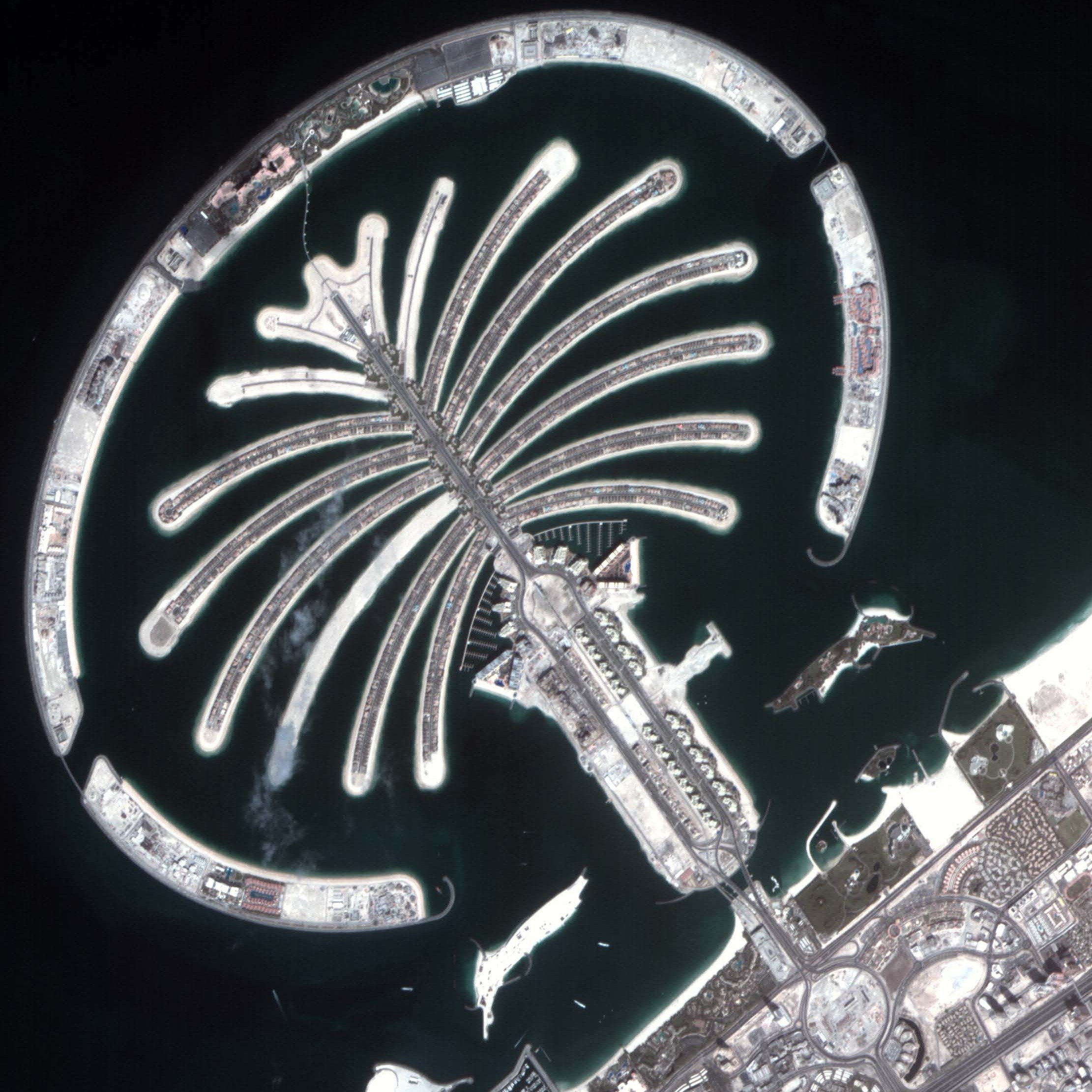 Pan-Sharpened image taken by DubaiSat-1 from EIAST of Palm Jumeirah Island on January 1th 2010 at 10:40 AM